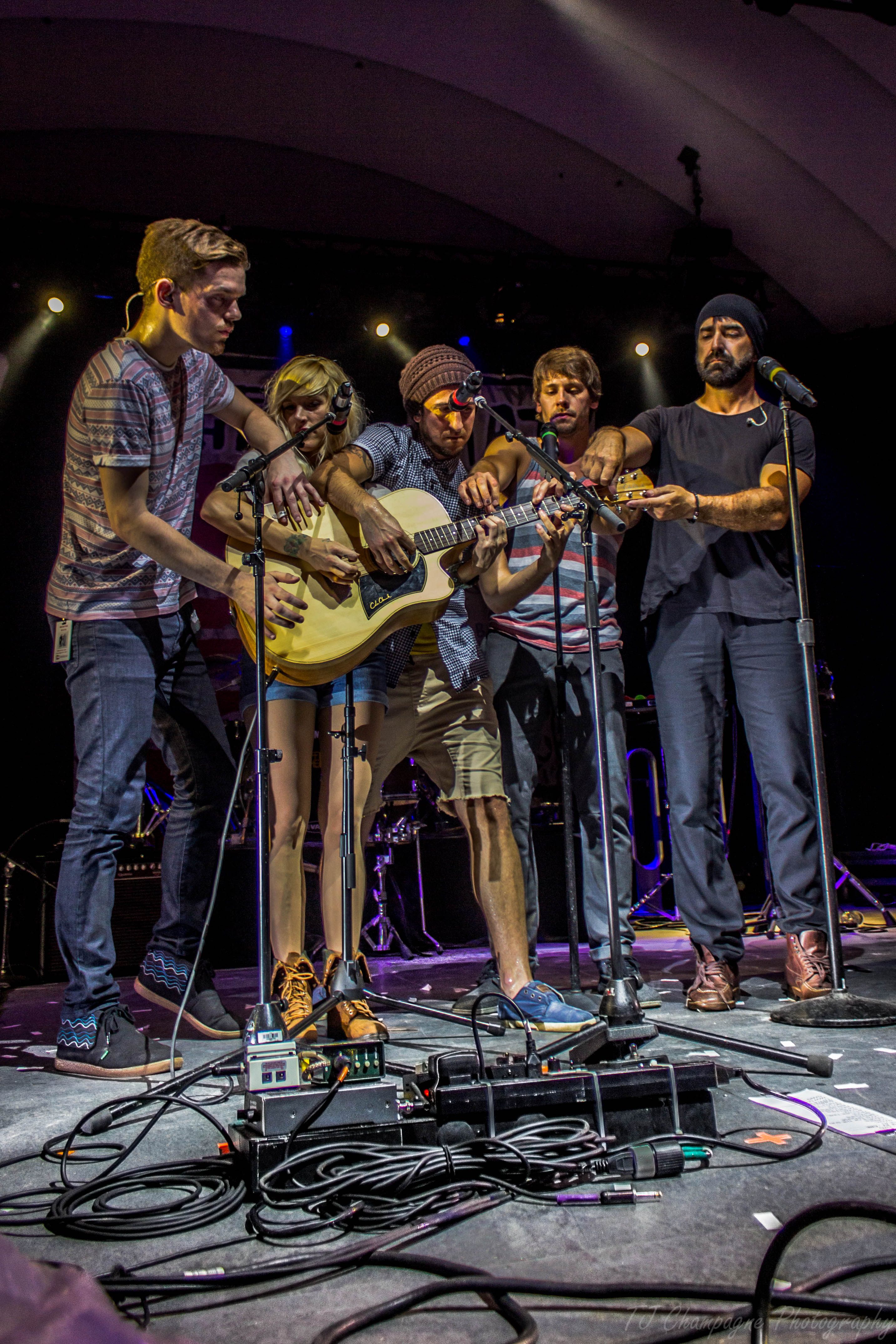 The five members of Walk off the Earth playing one single guitar together, at the 2013 Canadian National Exhibition